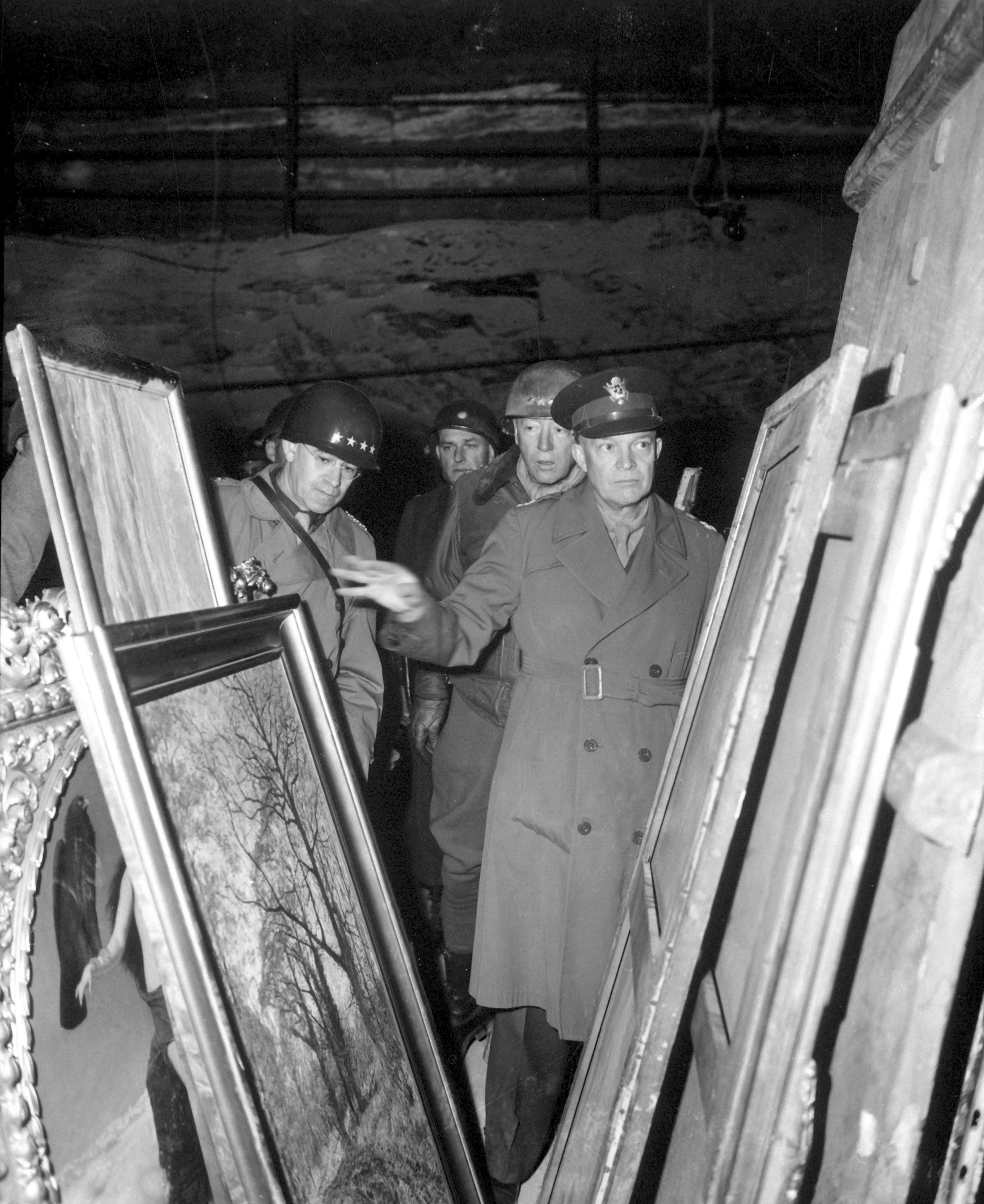 General Dwight D. Eisenhower, Supreme Allied Commander, accompanied by Gen. Omar N. Bradley, and Lt. Gen. George S. Patton, Jr., inspect art treasures stolen by Germans and hidden in salt mine in Germany. ID: HD-SN-99-02758. National Archive# 111-SC-204516 WAR & CONFLICT BOOK #: 1099.